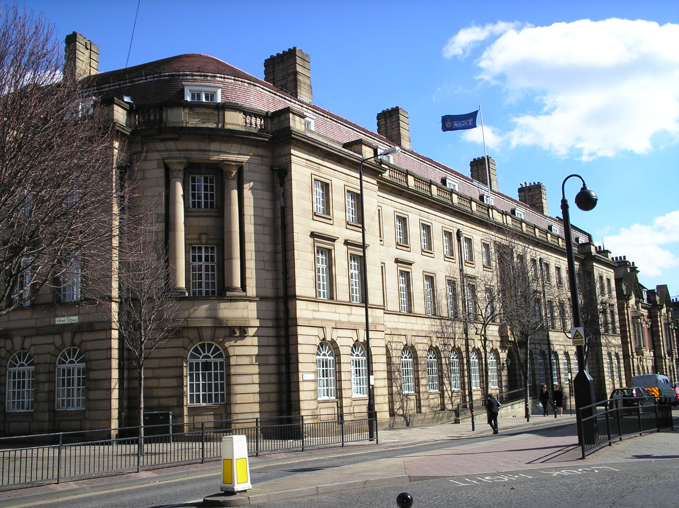 self made